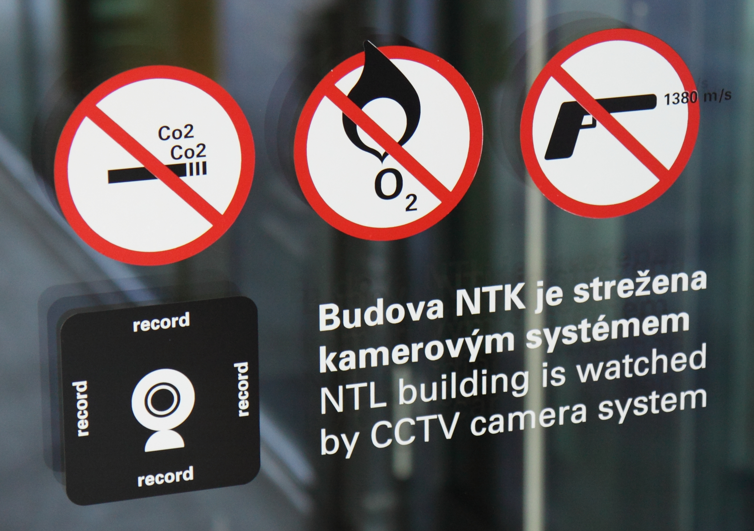 Prohibition signs by entry #3 into the building of National Technical Library in Prague (the word "střežena" is misspelled)